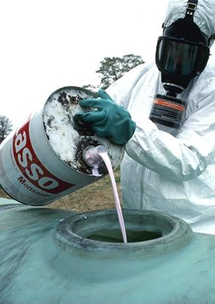 Monsanto Lasso herbcide to be sprayed on food crops. Generic name is Alachlor.